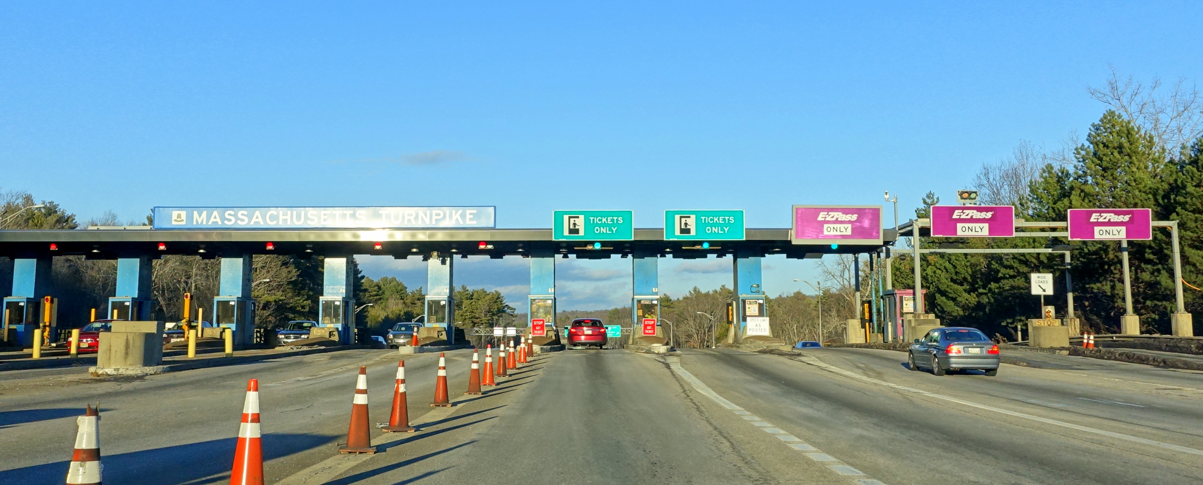 Massachusetts Turnpike tollbooth.